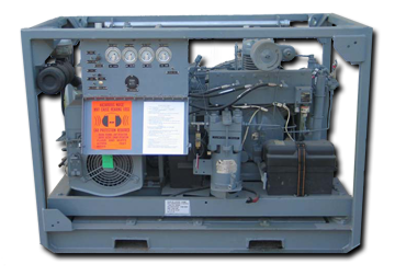 Air compressor